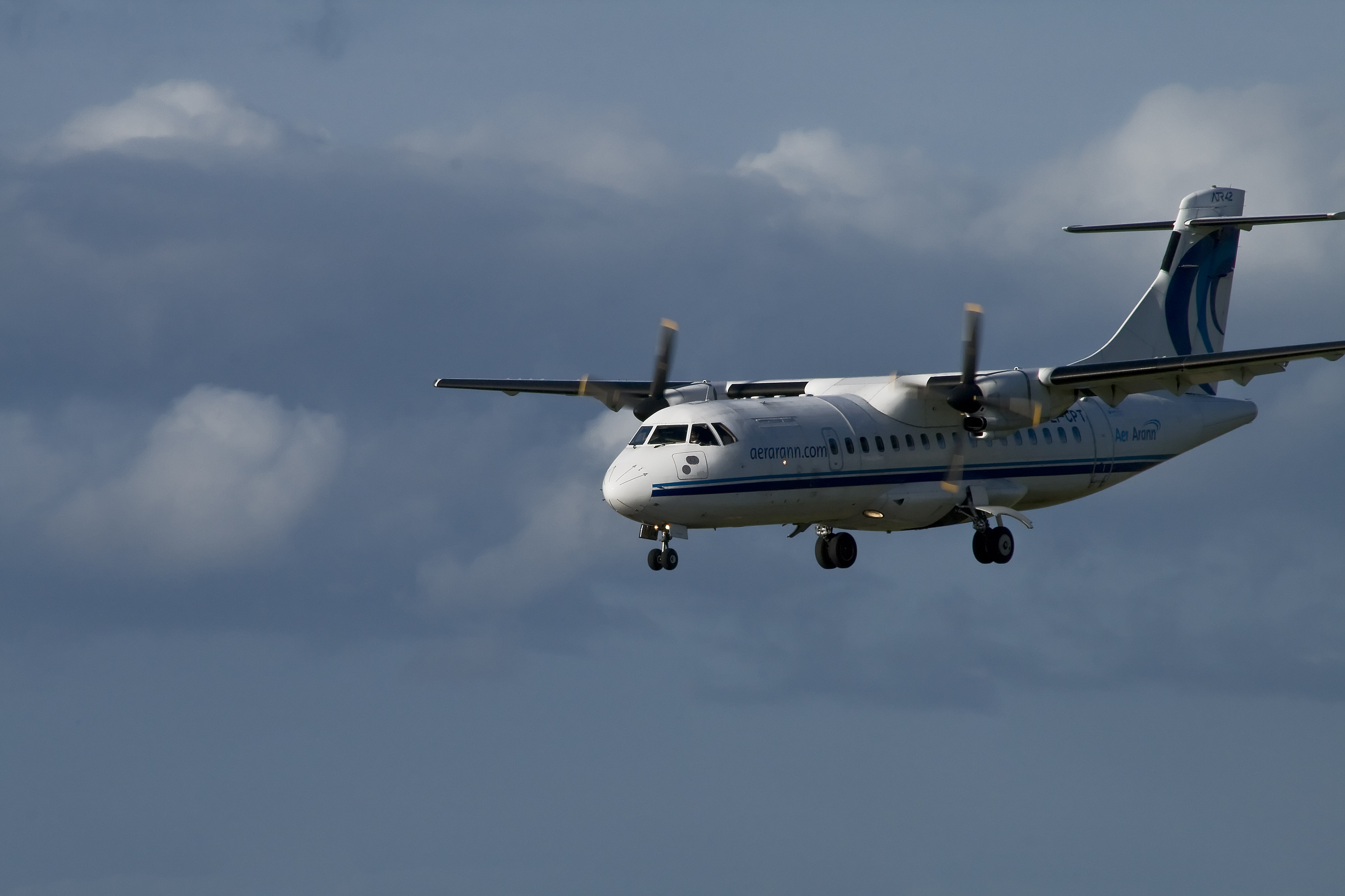 An Aer Arann ATR 42 on final approach to Dublin Airport